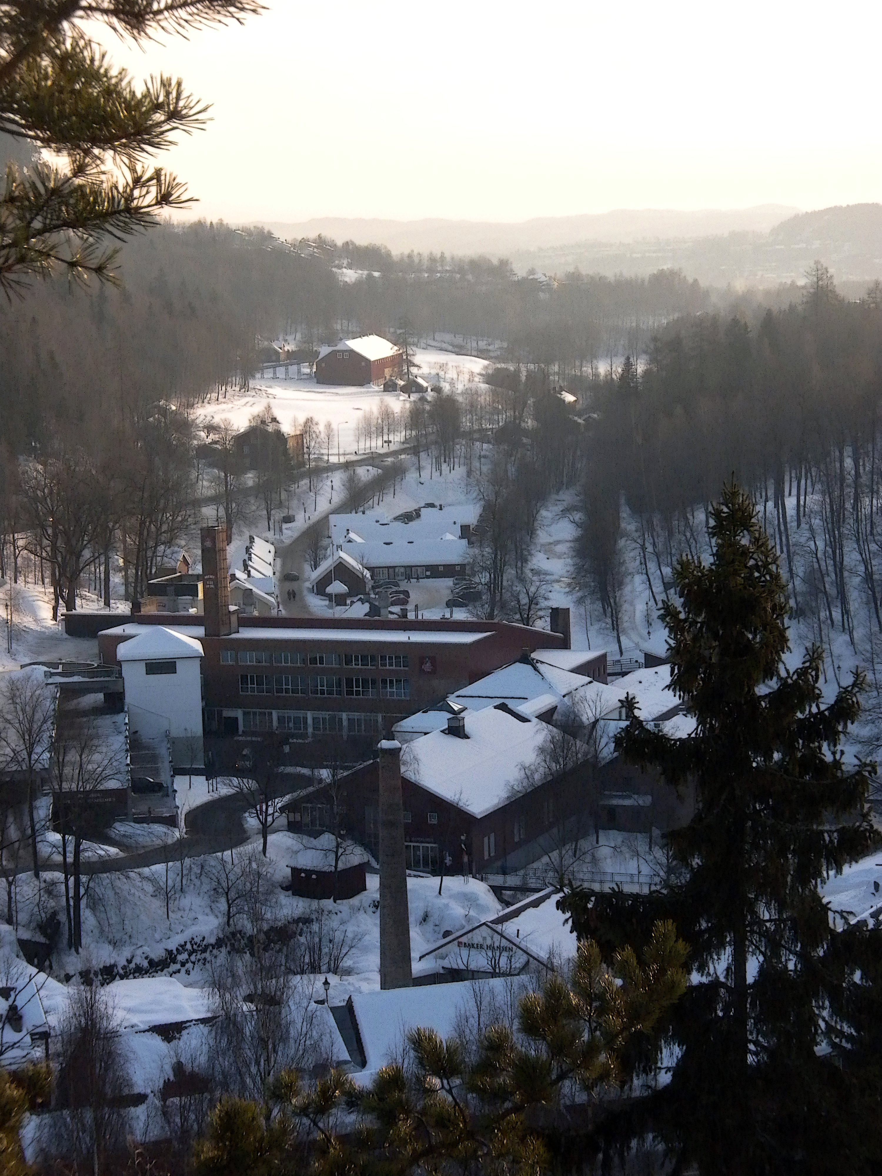 Bærums Verk from Gullhaugen.